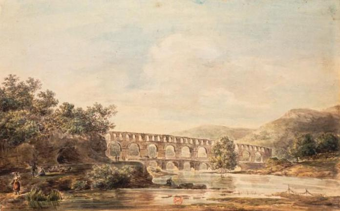 Drawing of the Pònt de Gard (Occitania) by Génillion